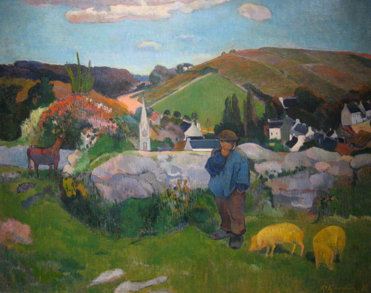 Paul Gauguin (France, Paris, 1848 - 1903) The Swineherd, 1888 Painting, Oil on canvas, 28 3/4 x 36 5/8 in. (73.03 x 93.03 cm) Gift of Lucille Ellis Simon and family in honor of the museum's twenty-fifth anniversary (M.91.256) Wikipedia Loves Art at the Los Angeles County Museum of Art This photo of item # M.91.256 at the Los Angeles County Museum of Art was contributed under the team name "artifacts" as part of the Wikipedia Loves Art project in February 2009. Los Angeles County Museum of Art The original photograph on Flickr was taken by Beesnest McClain—please add a comment to the original Flickr page whenever a use has been made on Wikipedia or another project. Project galleries on Flickr: this institution, this team Paul Gauguin (France, Paris, 1848 - 1903) The Swineherd, 1888 Painting, Oil on canvas, 28 3/4 x 36 5/8 in. (73.03 x 93.03 cm) Gift of Lucille Ellis Simon and family in honor of the museum's twenty-fifth anniversary (M.91.256) Wikipedia Loves Art at the Los Angeles County Museum of Art This photo of item # M.91.256 at the Los Angeles County Museum of Art was contributed under the team name "artifacts" as part of the Wikipedia Loves Art project in February 2009. Los Angeles County Museum of Art The original photograph on Flickr was taken by Beesnest McClain—please add a comment to the original Flickr page whenever a use has been made on Wikipedia or another project. Project galleries on Flickr: this institution, this team